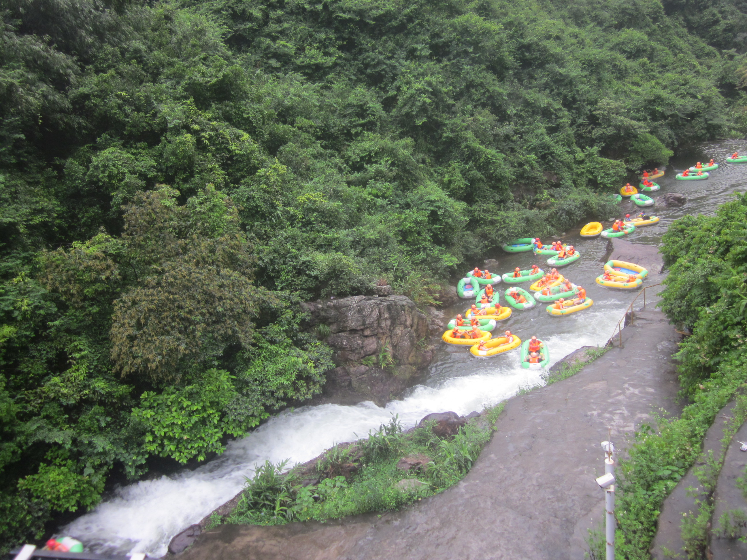 Picture of Huangtengxia Drifting, in Qingyuan, Guangdong, China.